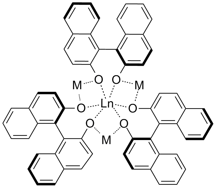 Shibasaki catalyst with the general formular [Ln(binol)3(M)3] (M = alkali metal, Ln = lanthanide)